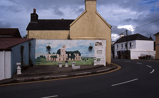 Kilgarvan Mural The R569 Kenmare road winds through the village in a series of 'S' bends, the second of which snakes around this house and its mural. Painted by local artist Mellissa Crawford Murphy, the main subject is of Ardtully Castle, a local building of some note, burned by the IRA in 1922